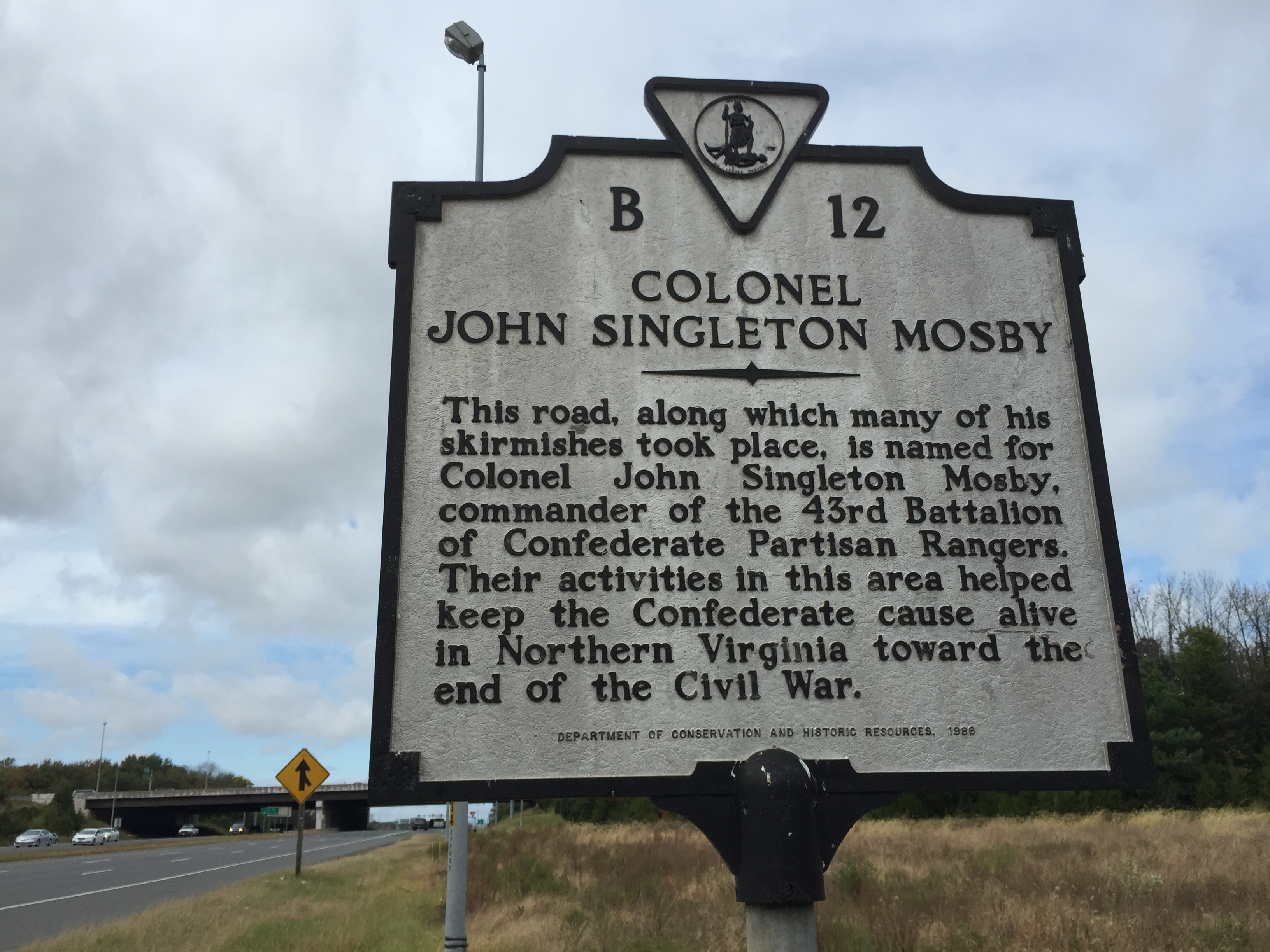 "Colonel John Singleton Mosby" historical marker along U.S. Route 50 (Lee Jackson Memorial Highway) at Virginia State Route 28 (Sully Road) in Chantilly, Fairfax County, Virginia